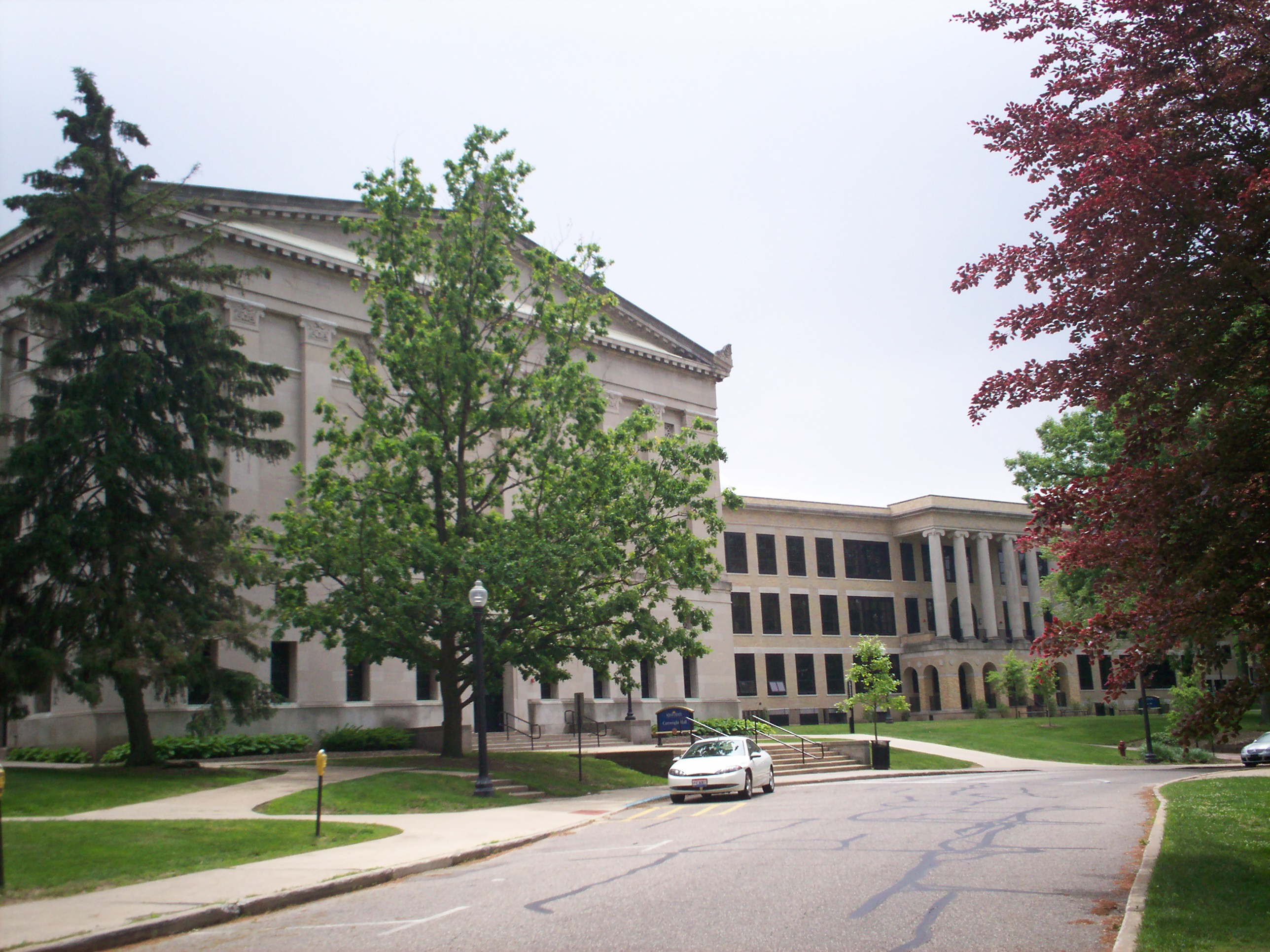 Photo of Cartwright Hall (formerly the Administration Building and the Auditorium Building) on the left and Kent Hall on the right on the campus of Kent State University in Kent, Ohio, May 2009.